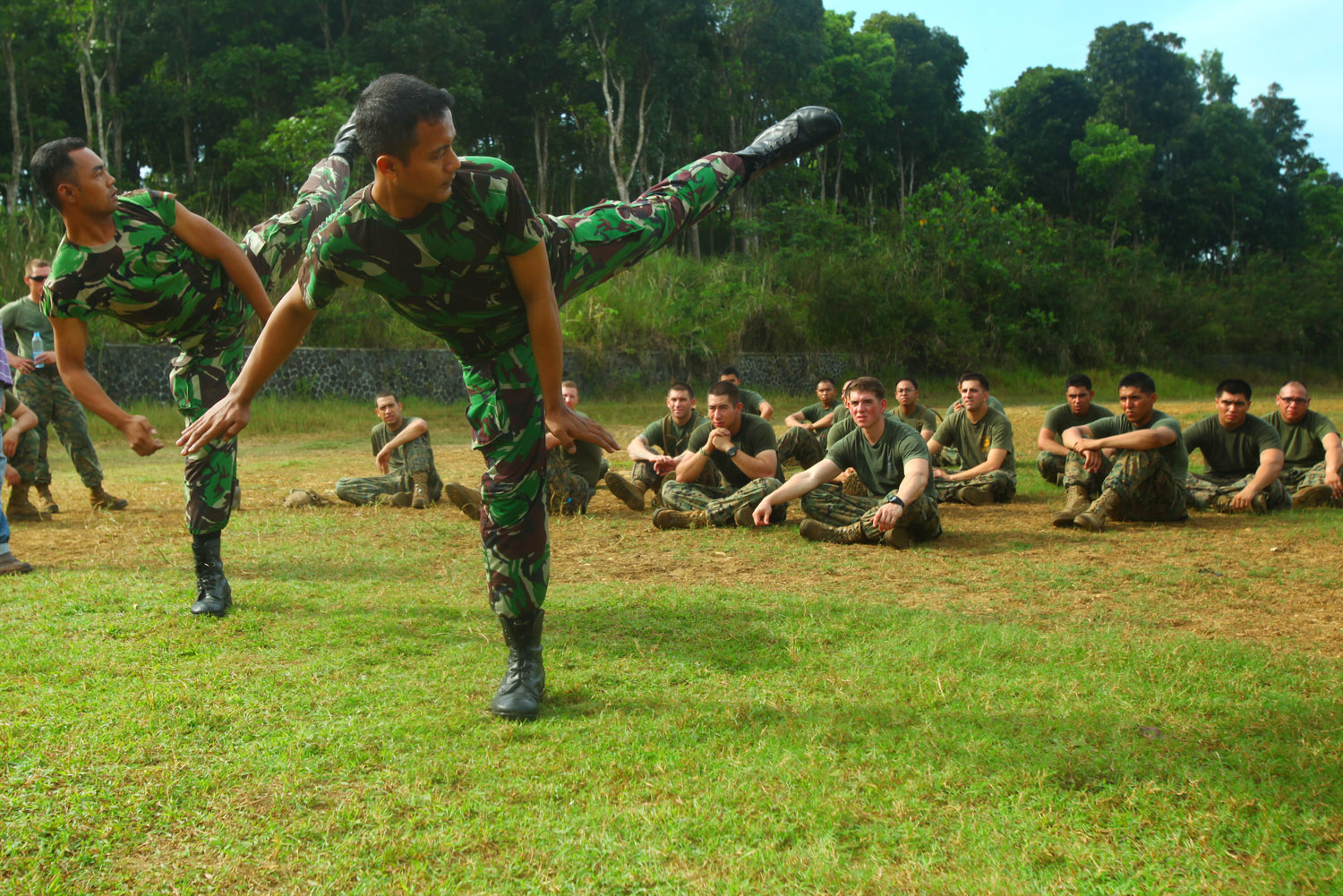 Indonesian Marines from 6th Battalion, 2nd Brigade, Korps Marinir, demonstrate kicks to U.S. Marines and Sailors with Landing Force Company during martial arts training May 27. Landing Force Company, comprised primarily of Marines from 2nd Battalion, 23rd Marine Regiment and 4th Assault Amphibian Battalion, 4th Marine Division, is participating in Cooperation Afloat Readiness and Training (CARAT) 2011. CARAT is an annual series of bilateral exercises held between the U.S. and Southeast Asian nations with the goals of enhancing regional cooperation, promoting mutual trust and understanding, and increasing operational readiness. While in Indonesia, the service members from both nations will train together on martial arts, military operations on urban terrain, jungle warfare, combat marksmanship and combat lifesaving. (U.S. Marine Corps Photo by Cpl. Aaron Hostutler)